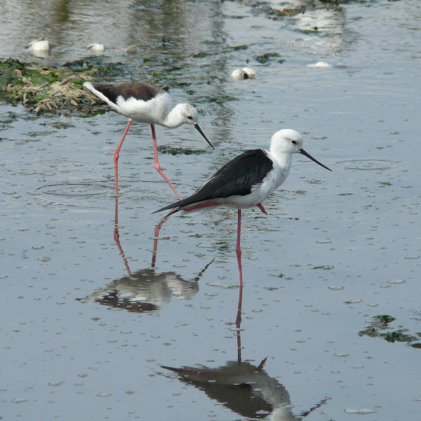 winter plumage, male (front) and female (back).